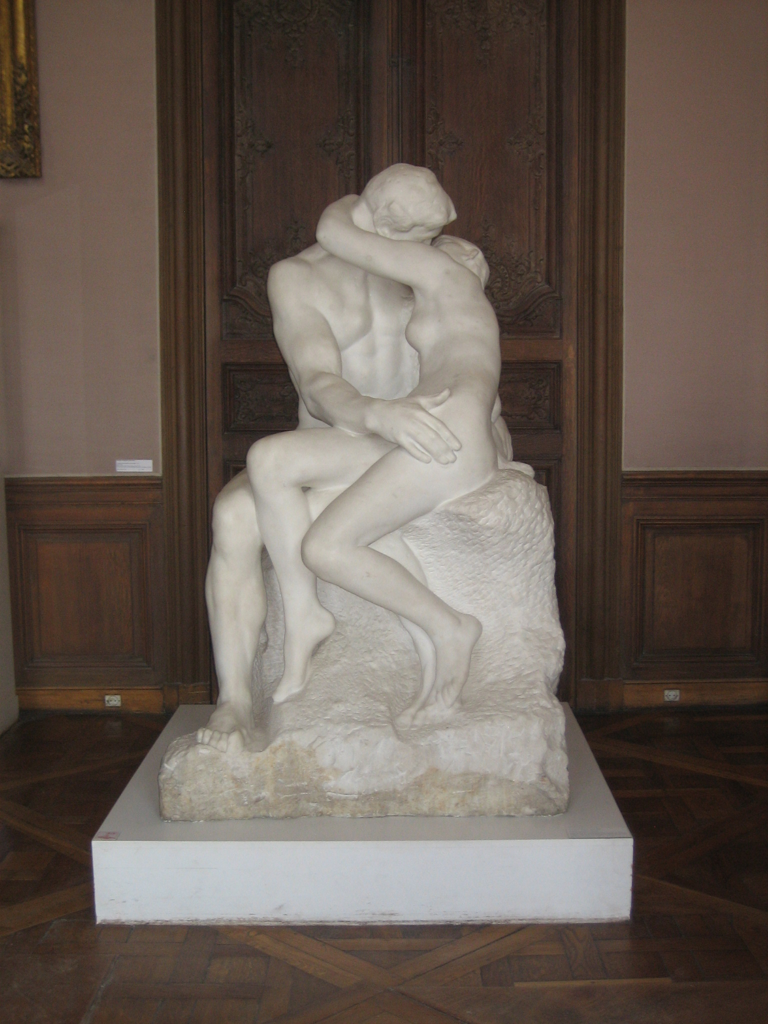 Frontal view of Auguste Rodin's sculpture 'The Kiss' in Musée Rodin, 7th arrondissement of Paris, Ile-de-France, France. This version was sculpted by Jean Turcan.